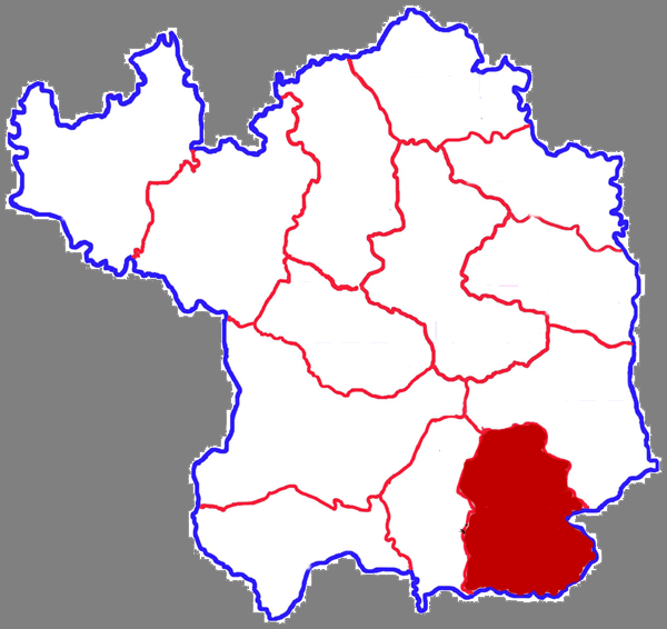 Location of Huanglong county in Yan'an city, China